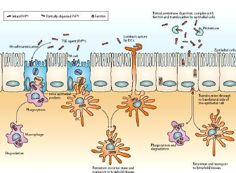 infectious prion particle ingested